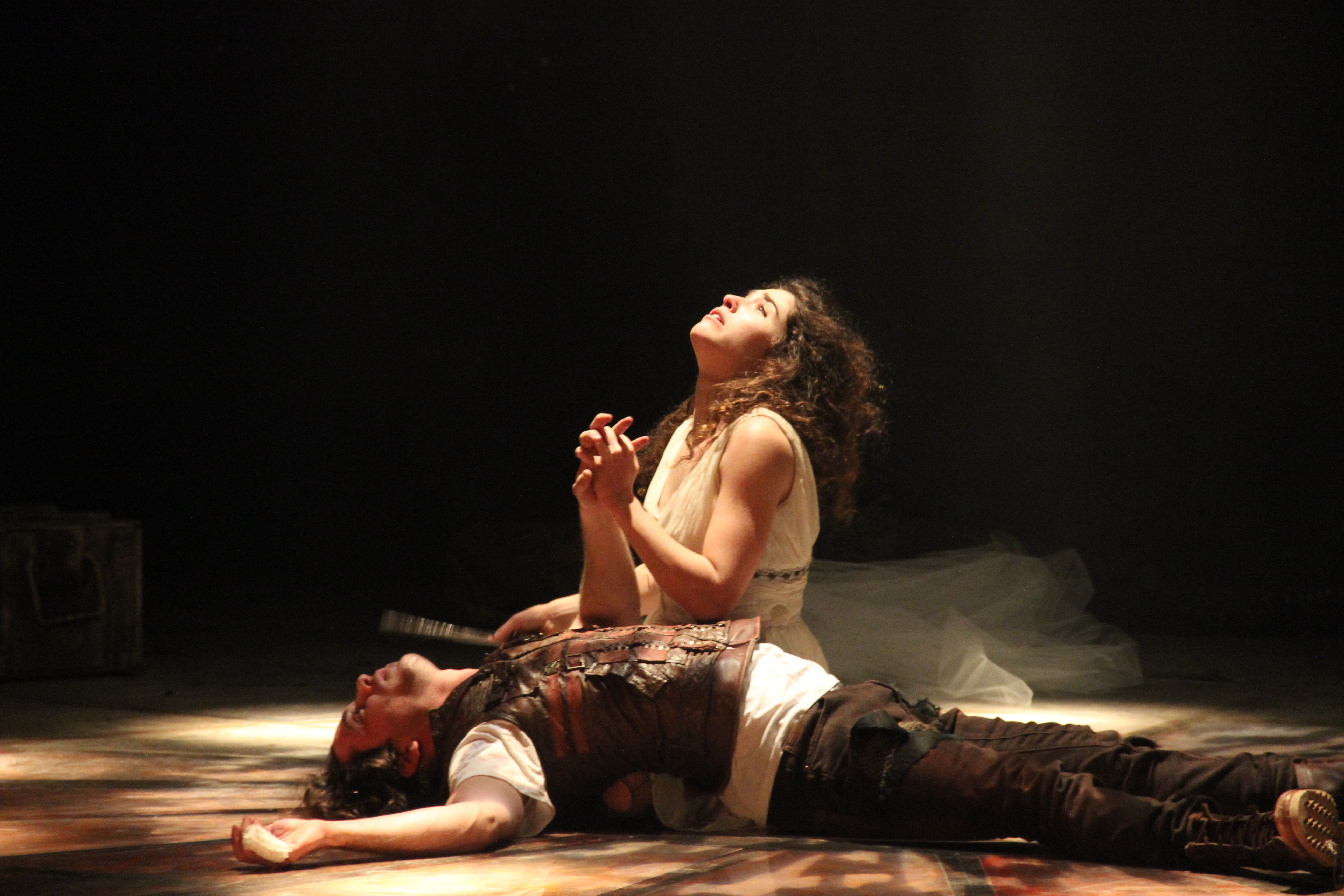 Avigile Harari and Tom Avni in Beersheba Theatre's "Romeo and Juliet"; Director: Irad Rubinstein; Lighting designer: Ziv Voloshin